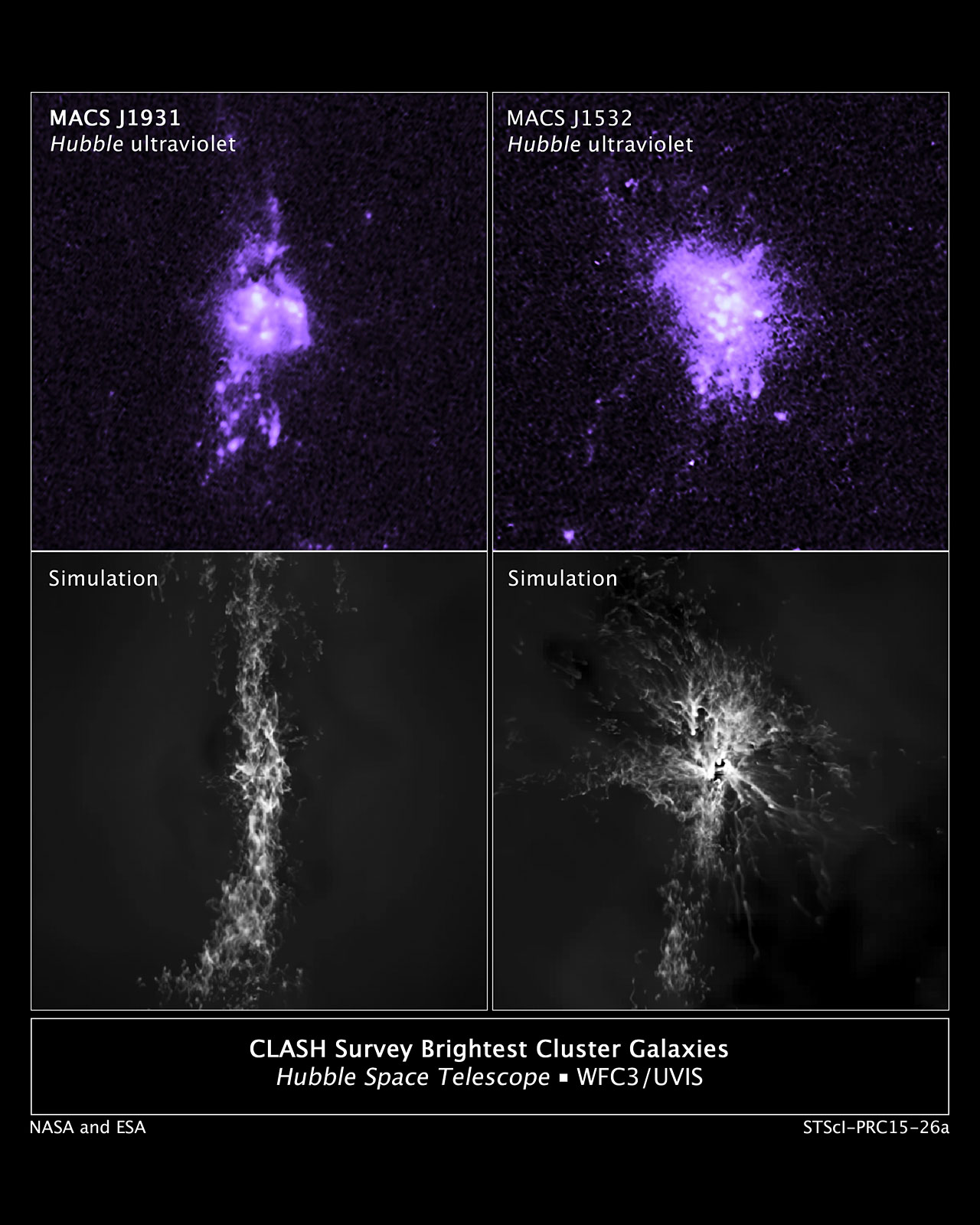 In this comparison of actual observations with simulations, the top images show Hubble observations of the density of gas in the central portion of two galaxies.The bottom images are computer simulations that are remarkably similar to the Hubble observations. Knots of star formation in the two galaxies show how gas falling into a galaxy’s center is controlled by jets from the central black hole.